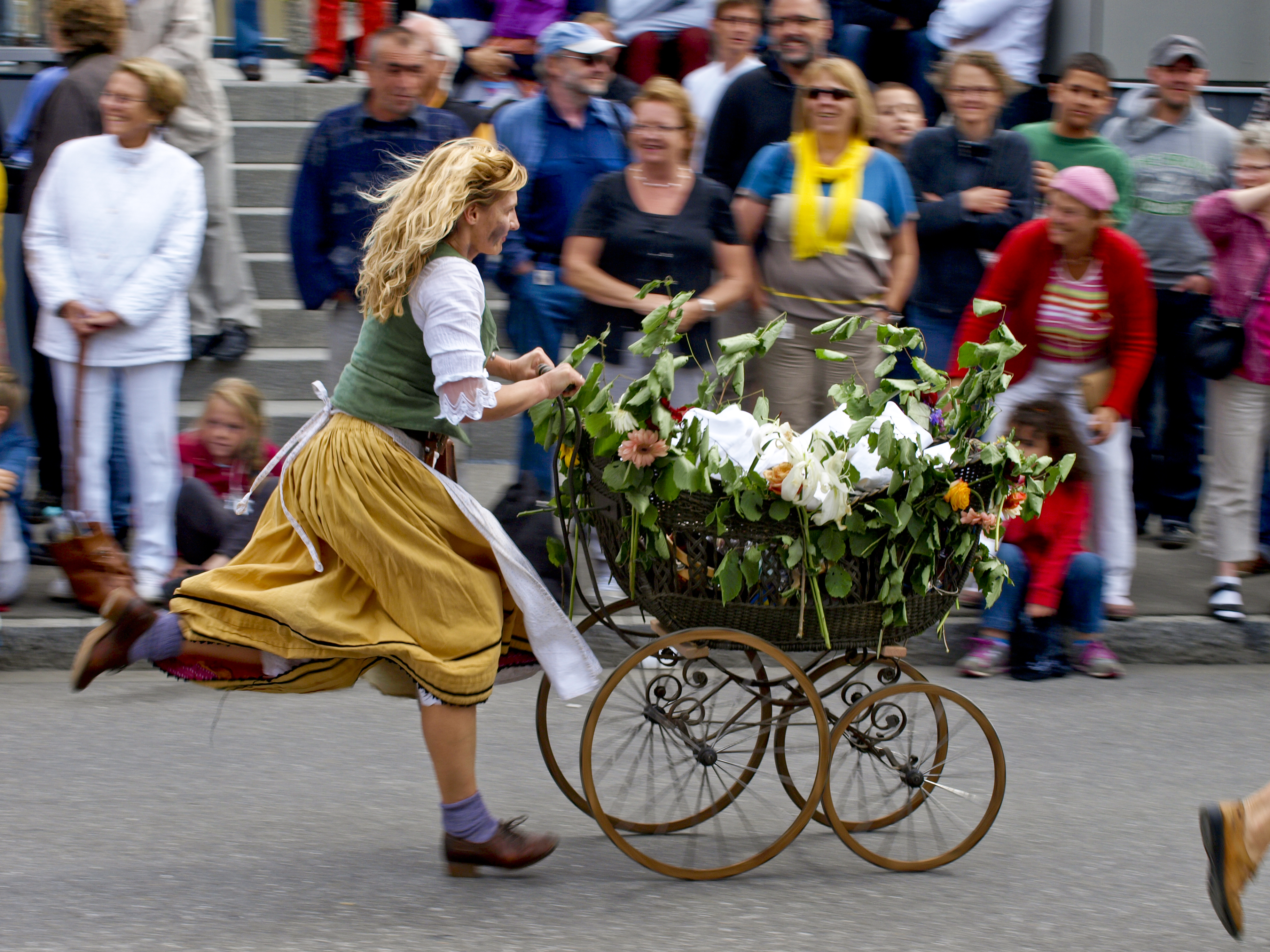 young woman during the Biberacher Schuetzenfest 2012